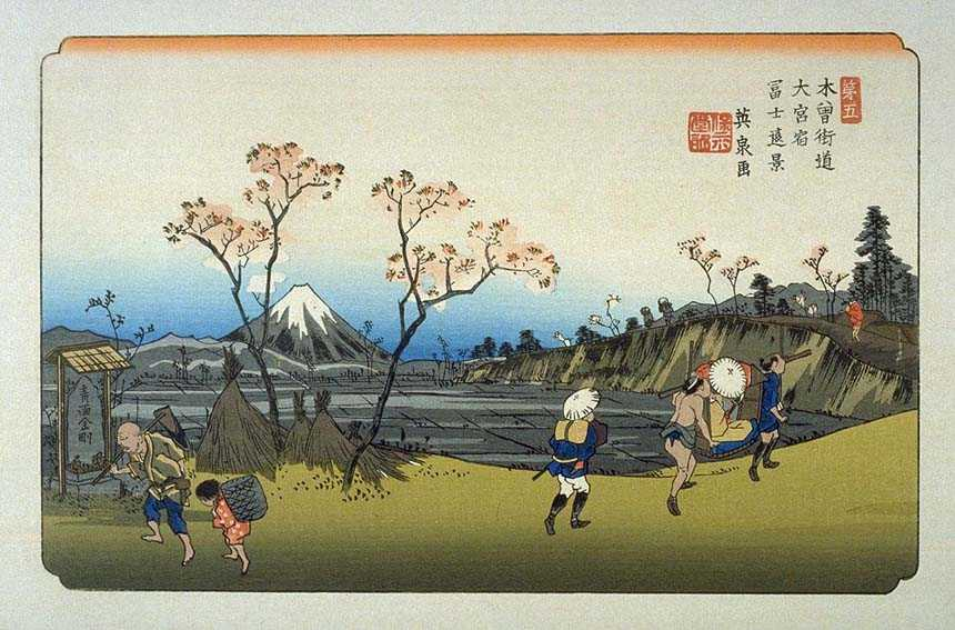 Omiya on the Kisokaido, ukiyo-e prints by Keisai Eisen